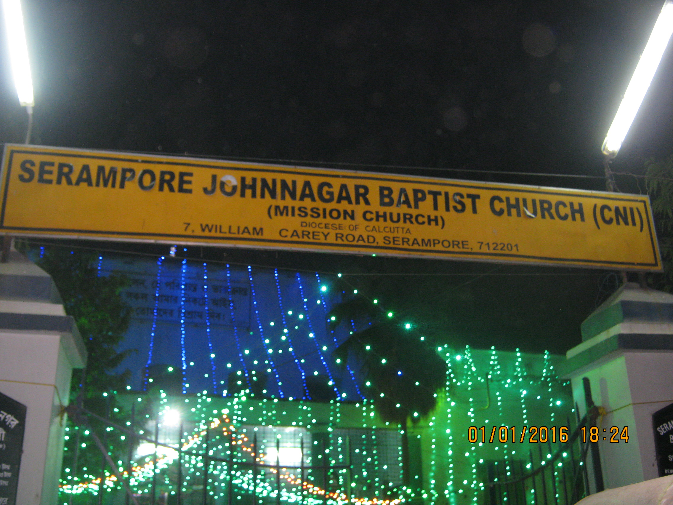 Serampore Johnnagar Baptist Church